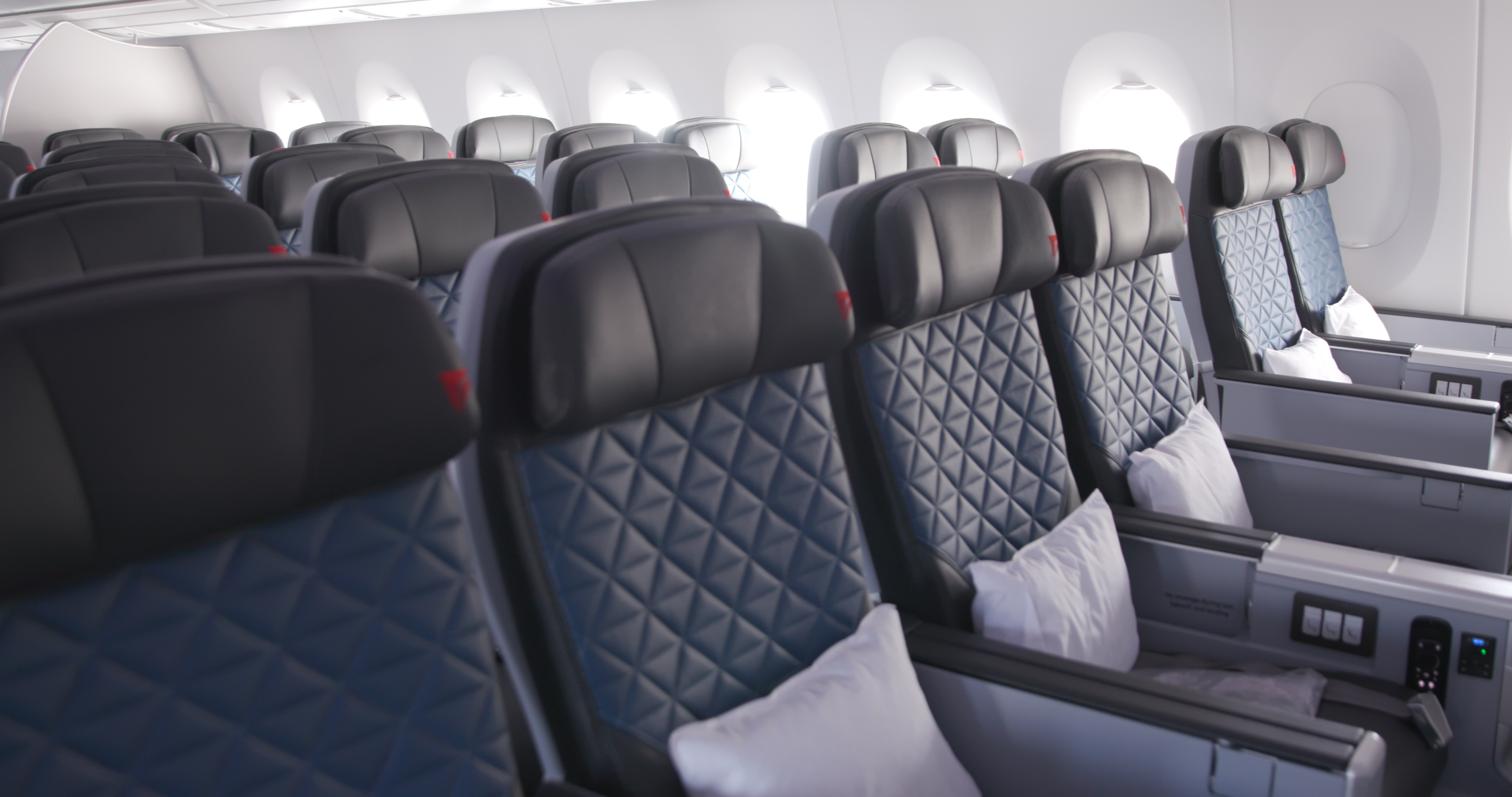 A350: Interior - Premium Select